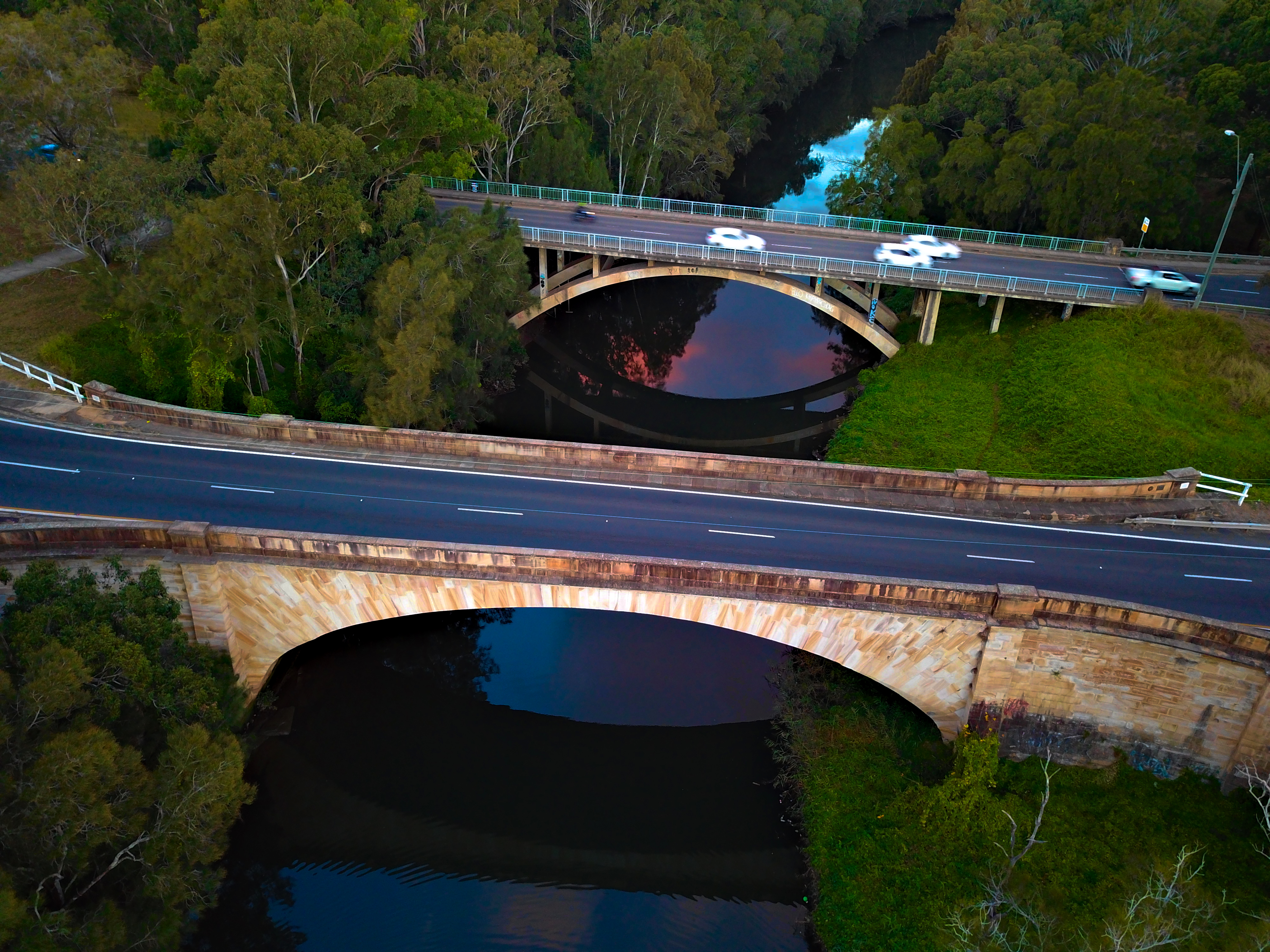 This photograph highlights the engineering masterpiece of David Lennox in building the Lansdowne Bridge, it is shown from a bird's eye view and is in the foreground with the 1956 duplication in the background of the shot.